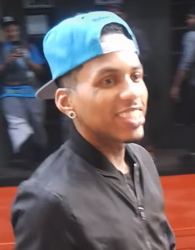 Kid Ink in Prague during his "My Own Lane Tour" 2014.